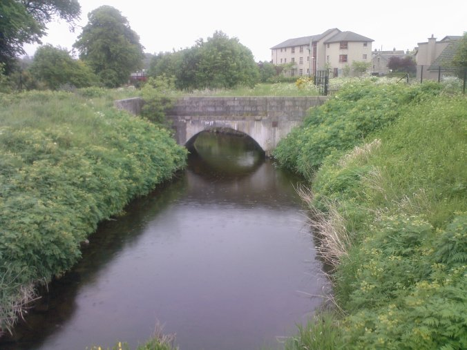 A section of the Aberdenshire Canal at Port Elphinstone which still contains water